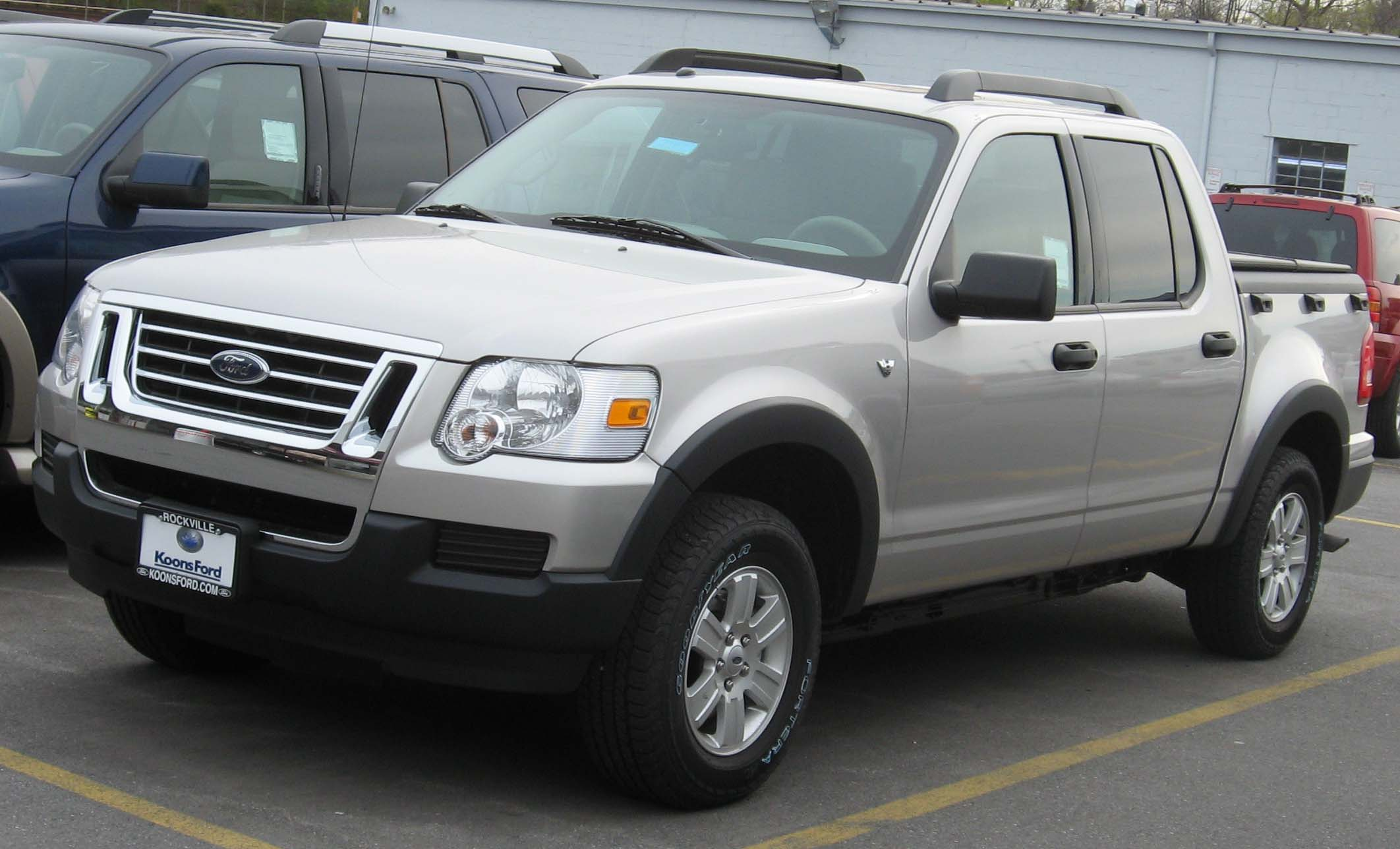 2007 Ford Explorer Sport Trac photographed in USA.